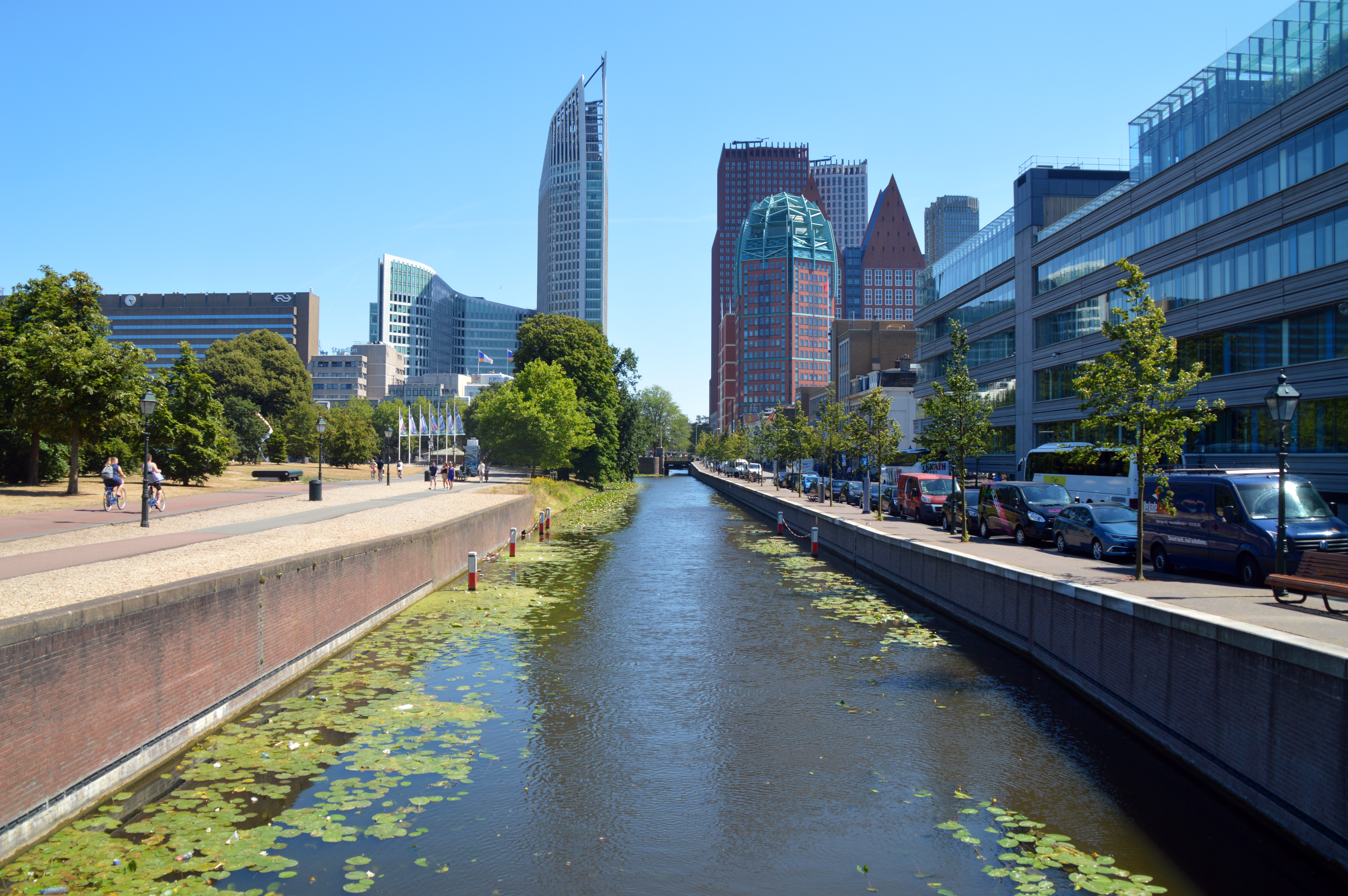 Prinsessegracht, on the right Ministry of Finance, Left front Koekamp park, Back left Den Haag Centraal Railwaystation, next to that the highrise offices of the Ministry of Education, Culture and Science.